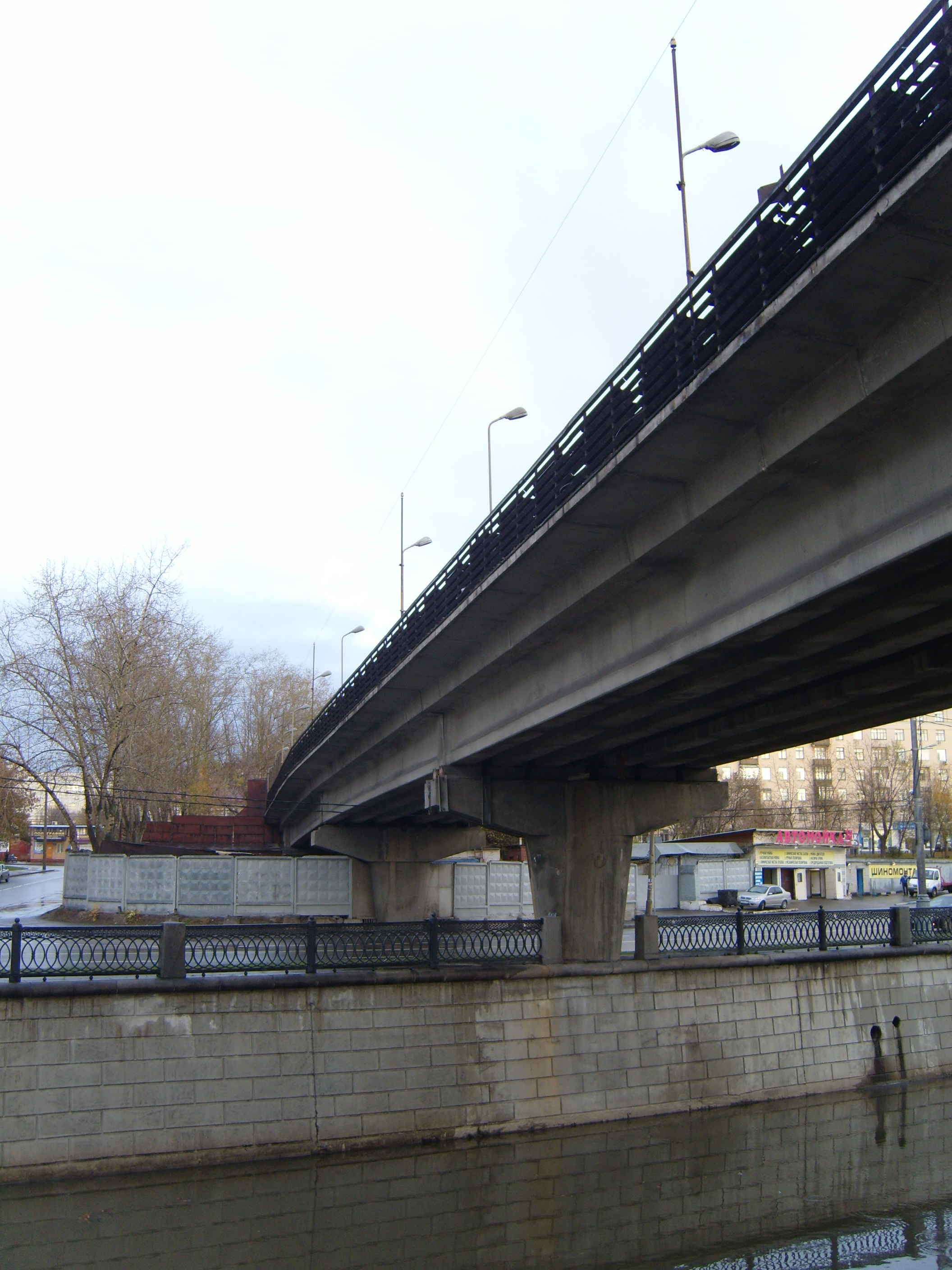 Preobrajenskiy metrobridge between the stations of Moscow Metro "Sokolniki" and "Preobrajenskaya ploshad'"